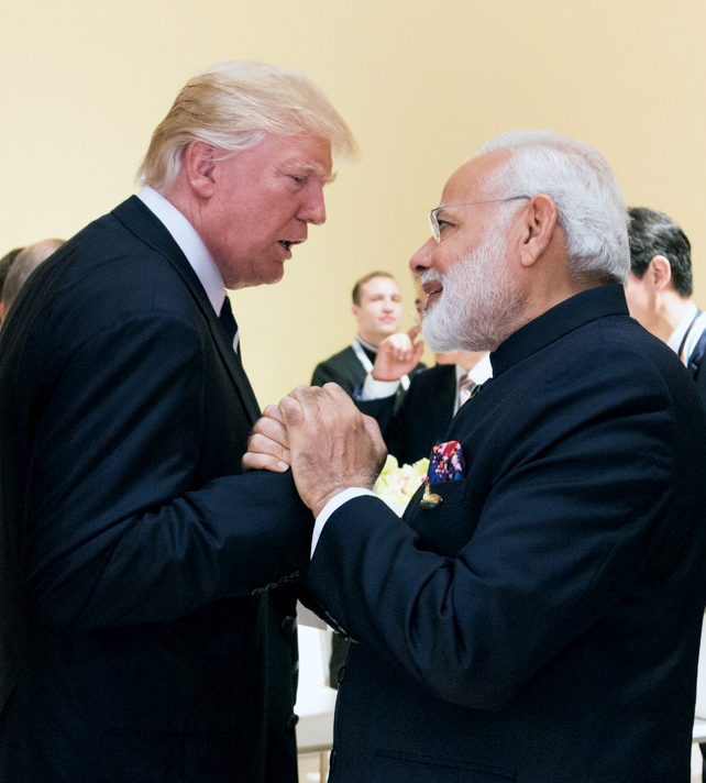 President Donald J. Trump and Prime Minister Narendra Modi | July 7, 2017 (Official White House Photo by Shealah Craighead)